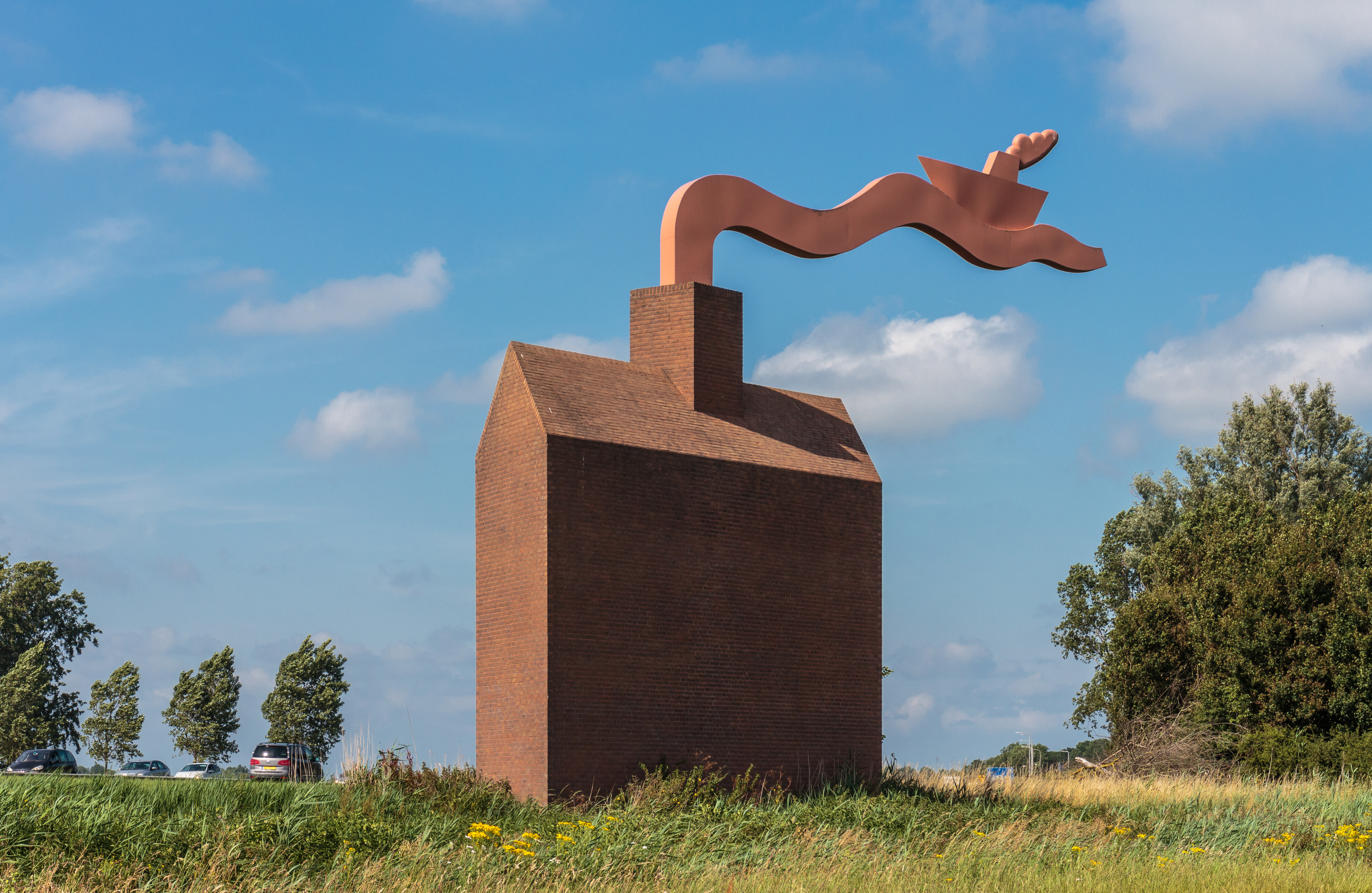 Artwork next to highway A6 near Ketelbrug. Artwork (Het Ketelhuisje) by Koopman & Bolink.